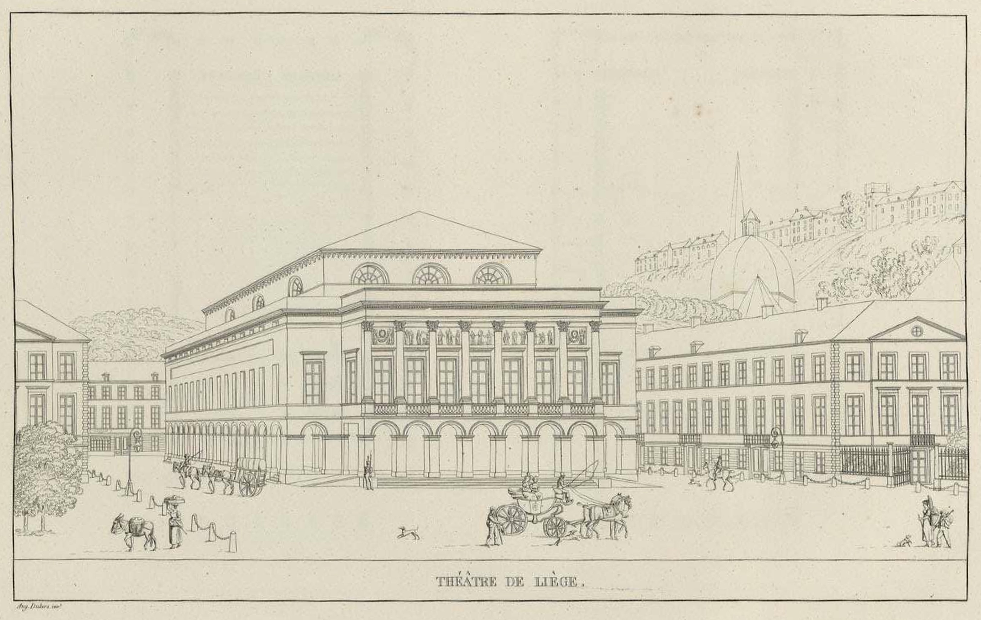 Pierre-Jacques Goetghebuer (1788-1866) became professor of architecture in Ghent, after his studies for architectural drawing at the local art academy. From 1817 he started working on a publication with images of the most remarkable buildings from the newly created United Kingdom of the Netherlands. This book would include both old and contemporary, neoclassicist buildings. Most of the 120 plates depict buildings from the Southern Netherlands, especially Brussels and Ghent. Goetghebuer executed the engravings based upon his own sketches or designs by the architects themselves. Other artists finished the engravings in aquatint. Goetghebuer published this collection of engravings in 1827 with publisher André Benoît II Steven, and he dedicated them to King William I. Many buildings in this book have since disappeared, hence its significant historical importance. Also published in Dutch, with the title Verzameling der merkwaardigste gebouwen in het Koningrijk der Nederlanden.